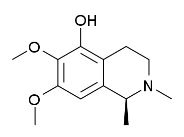 Structure of gigantine